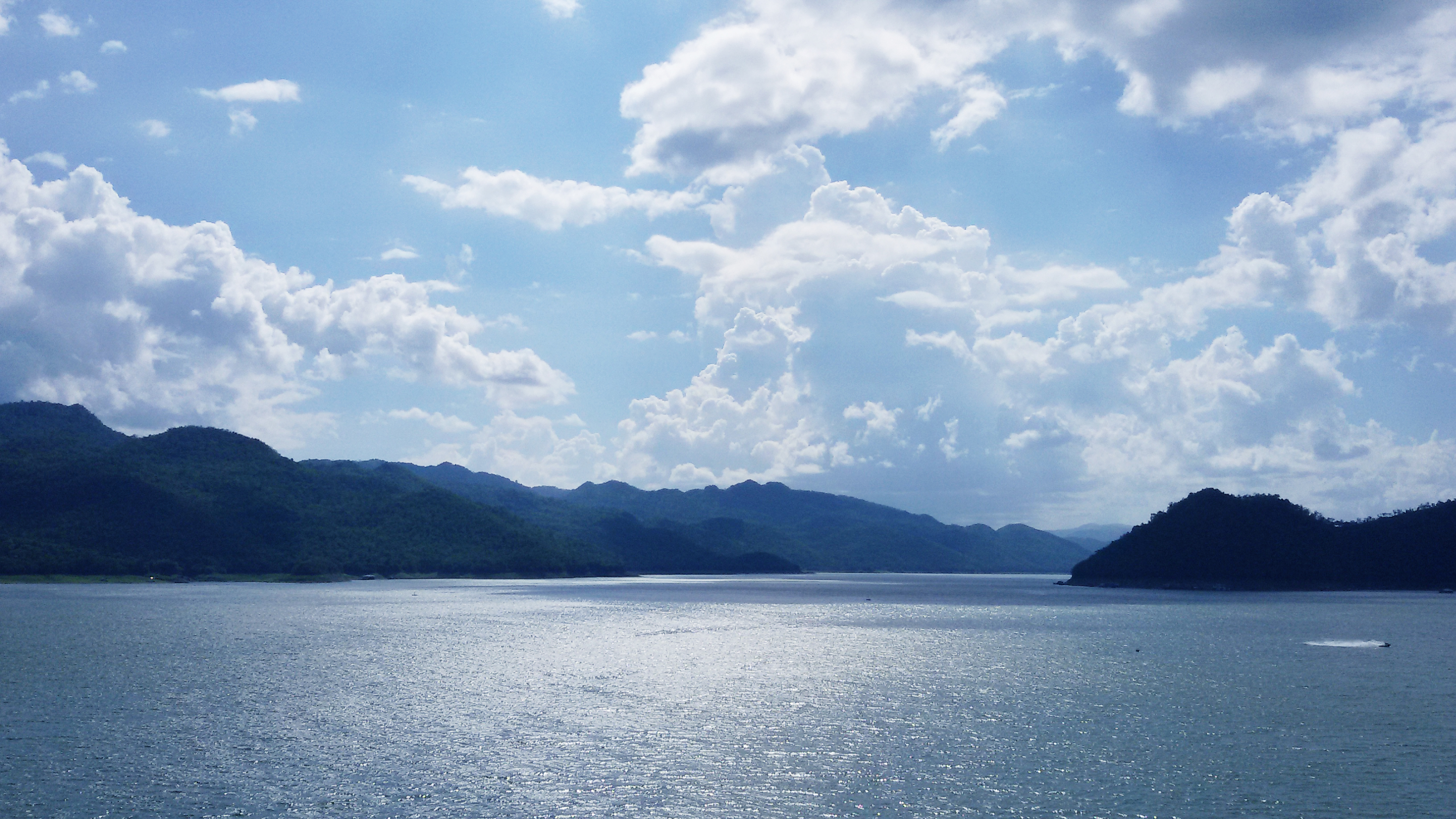 อุทยานแห่งชาติเอราวัณ โซนเขื่อน